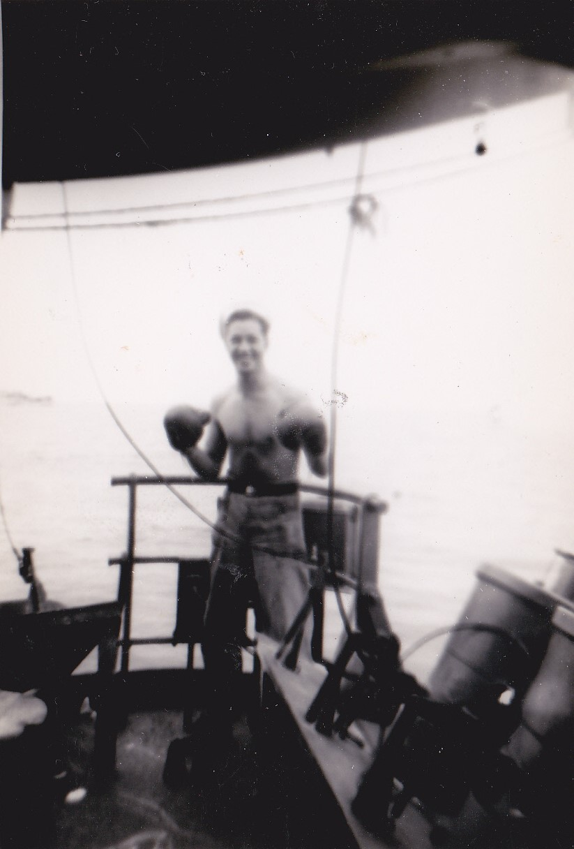 Calvin "Jiggs" O'Rourke 1925-2016 aboard the SS Lawton B Evans WWII